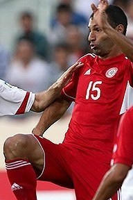 Iran v Lebanon at the 2014 FIFA World Cup qualifiers.